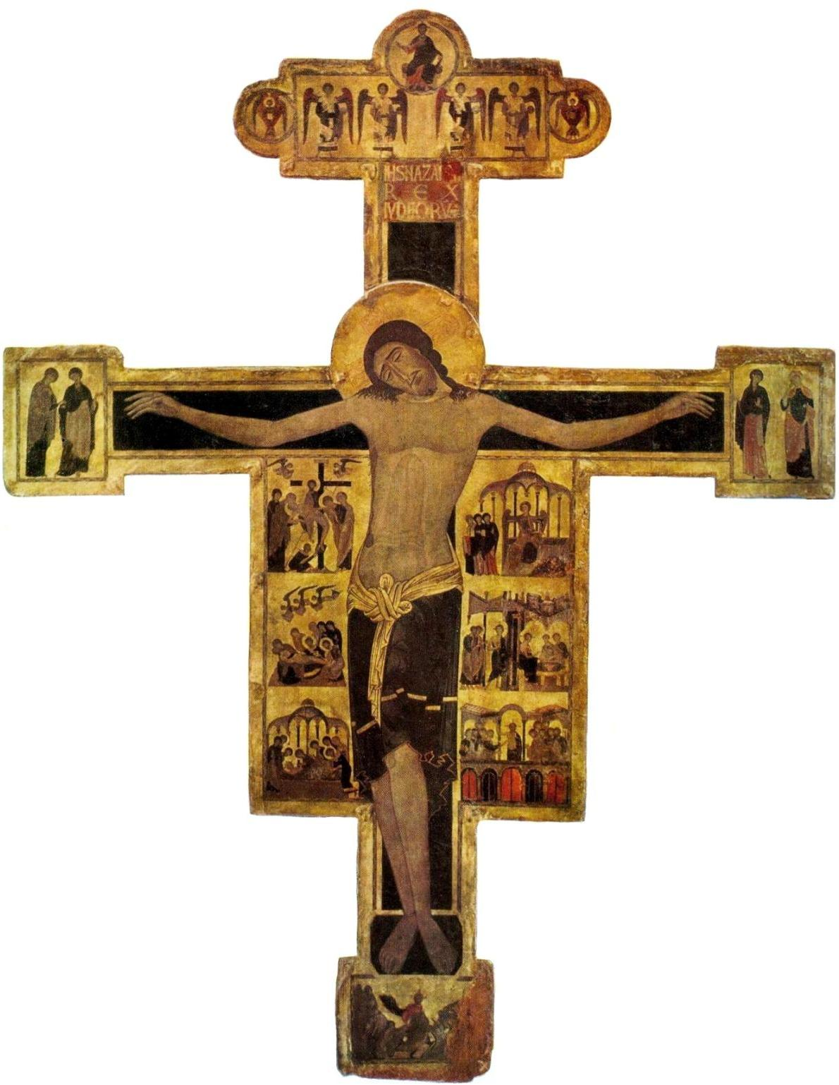 Byzantine Crucifix of Pisa